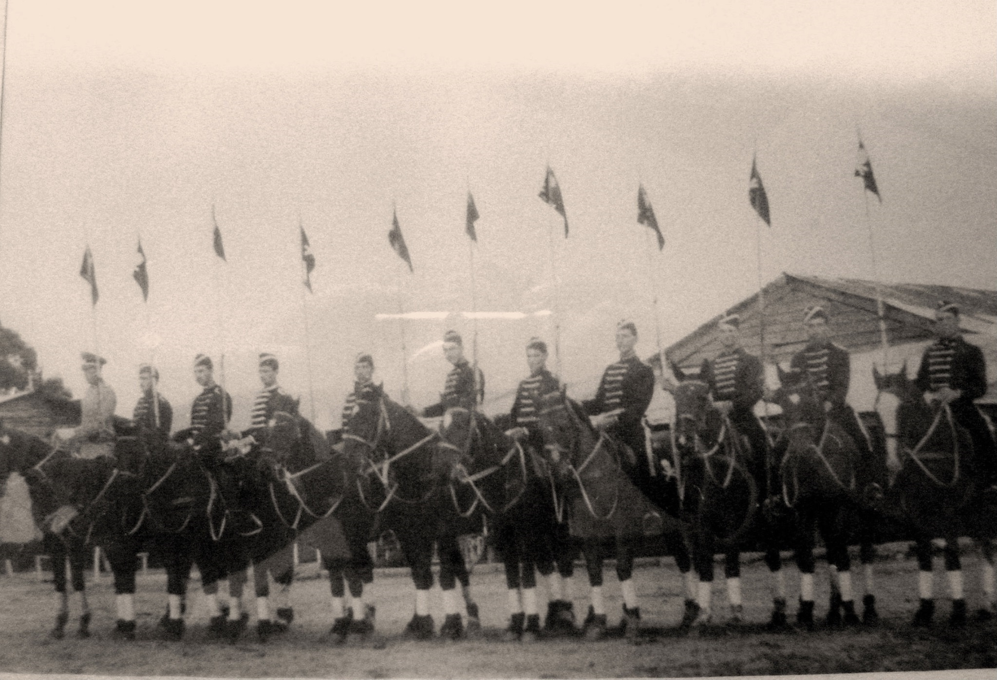 The old riders of the 'Cuadro Negro' - Hussars of the Death.